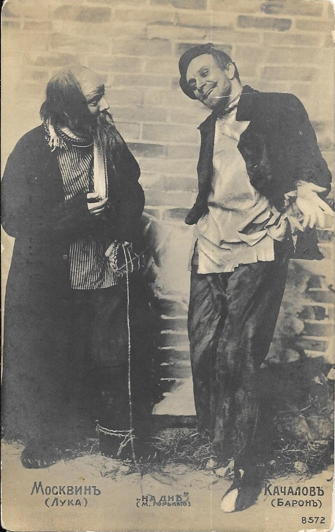 Ivan Moskvin and Vasily Kachalov in The Lower Depths (1902) Russian postcard, no. 8572. Photo: publicity still for the Moscow Art Theatre production of The Lower Depths (1902) by Maxim Gorky, with Ivan Moskvin as Luka and Vasili Kachalov as the Baron. Collection: Didier Hanson